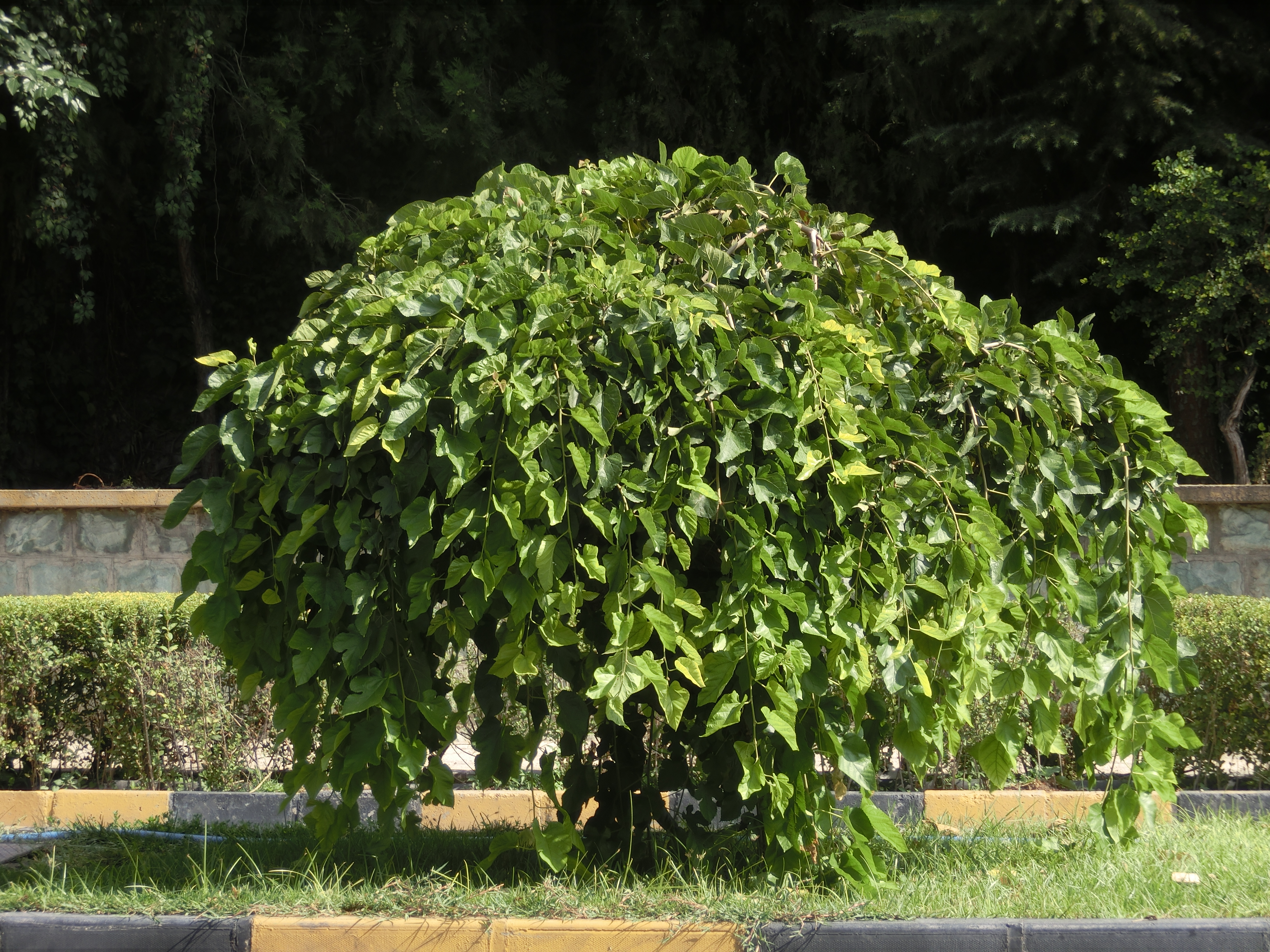 Morus alba - Tehran